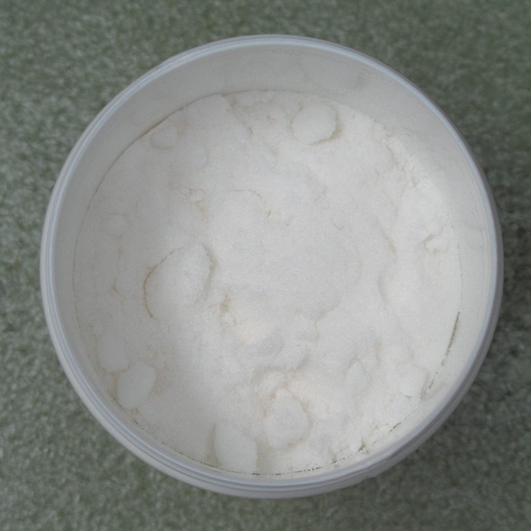 100 grams of ammonium perchlorate